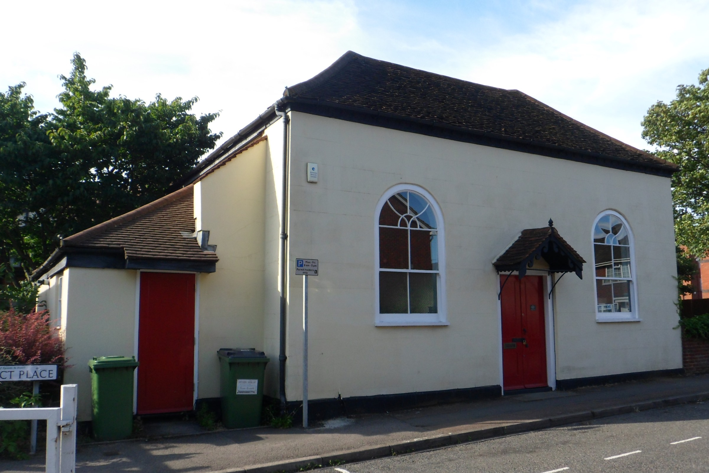 The former Bugby Chapel, Prospect Place, Epsom, Surrey, England, seen from the south.Built in the 18th century for William Bugby, an Independent Calvinist preacher who died in 1772. The chapel was later Unitarian, then Strict Baptist (Salem Chapel), and then became Epsom and District Synagogue. In 1994 it was converted into an office.